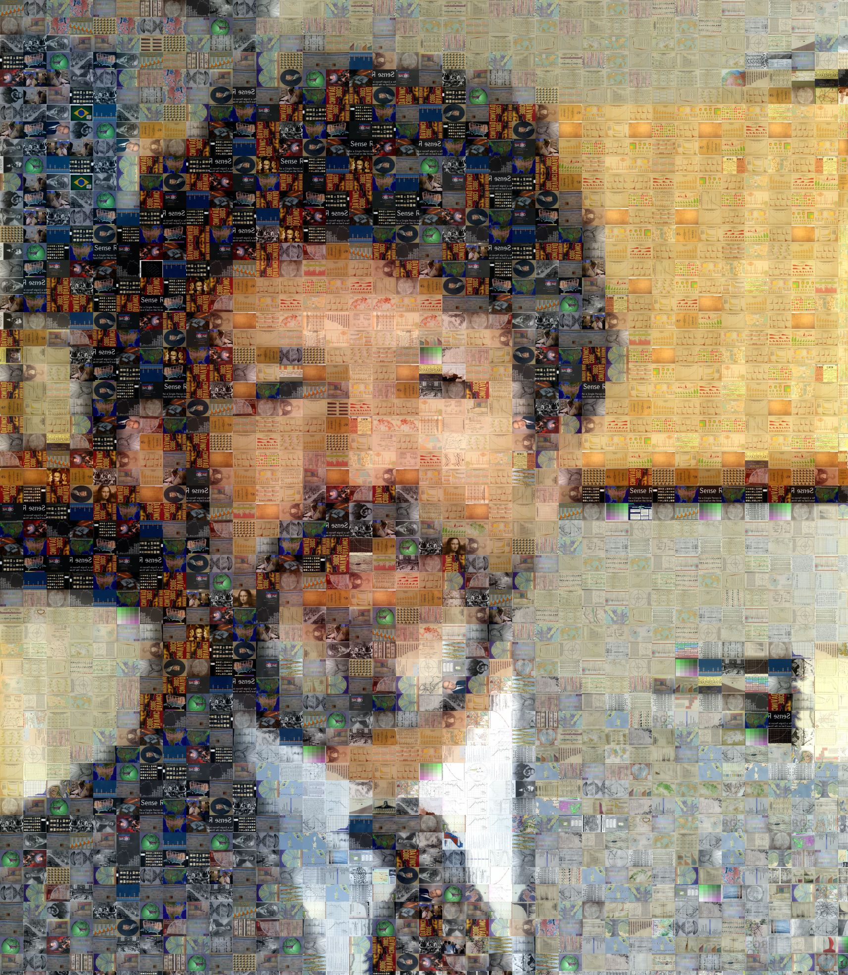 Michael Friendly portrait as a photo mosaic.